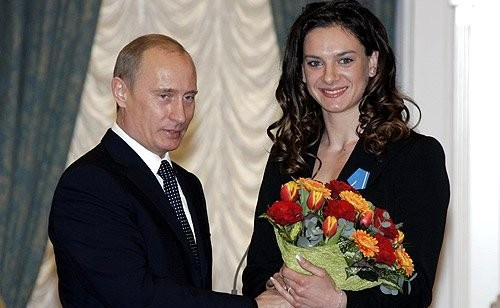 Elena Isinbaeva in Kremlin